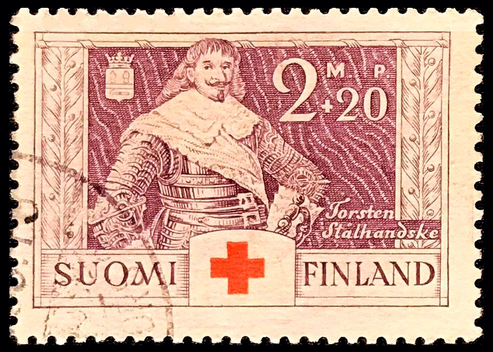 Postage stamp depicting the Finnish general Torsten Stålhandske